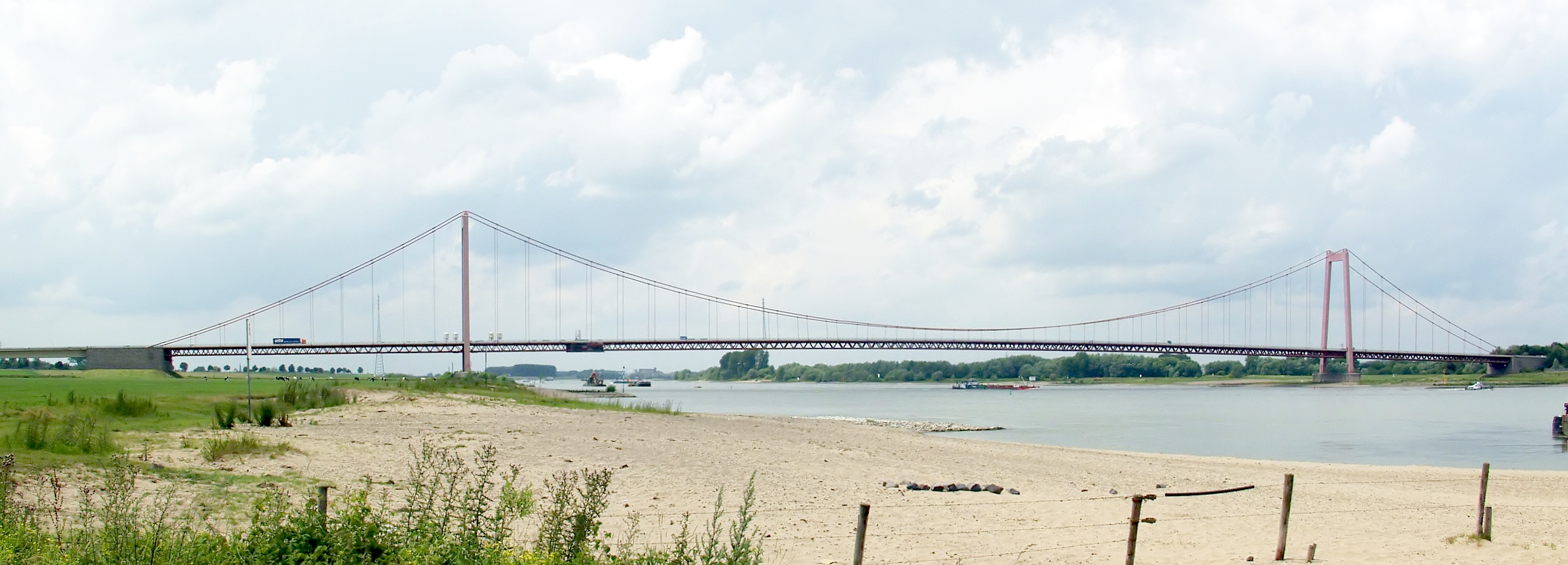 Brigde over the Rhine at Emmerich, Germany